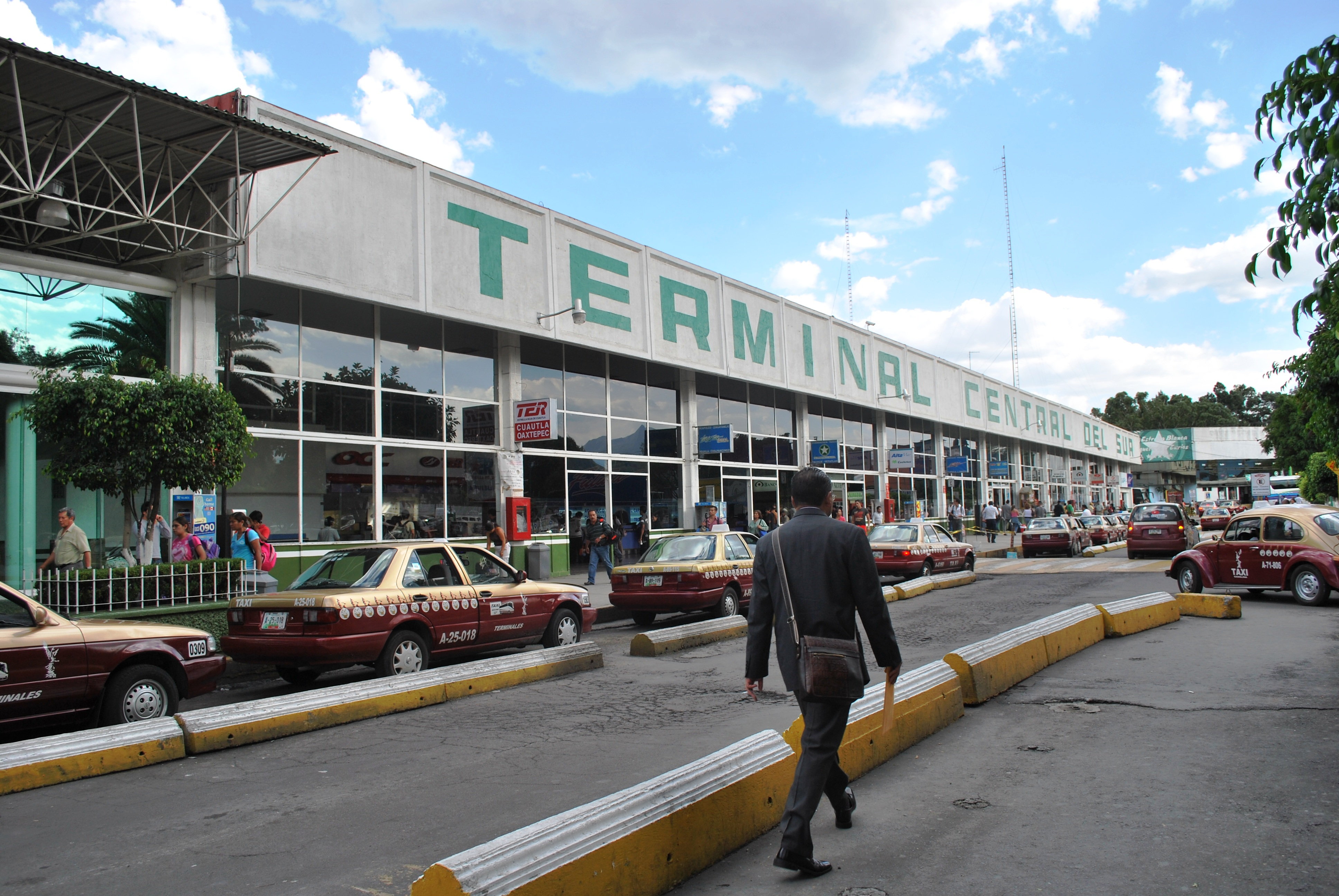 Facade of the Terminal Central del Sur for inter-city buses at Metro Taxquña in Mexico City